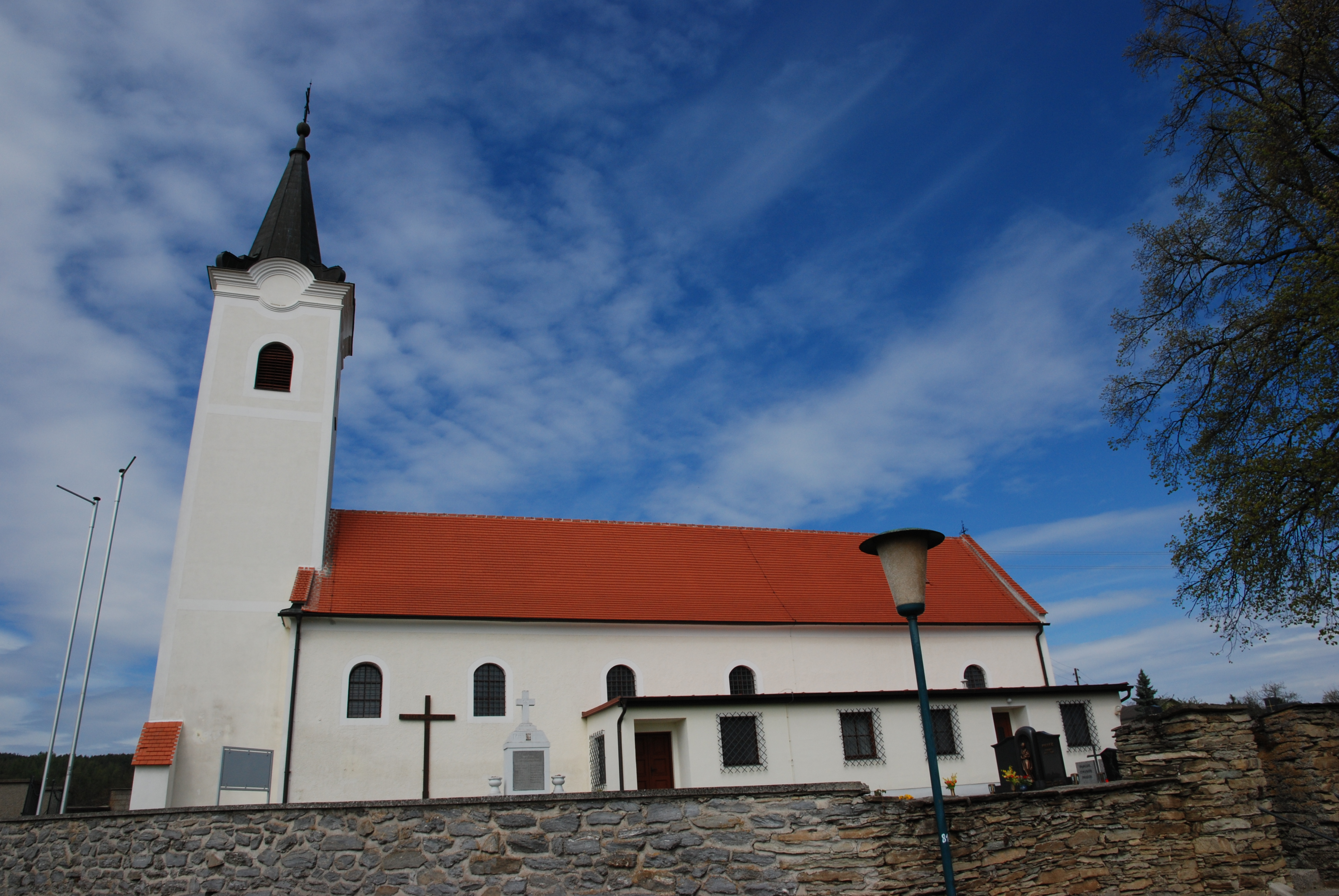 Kirche Markt Neuhodis